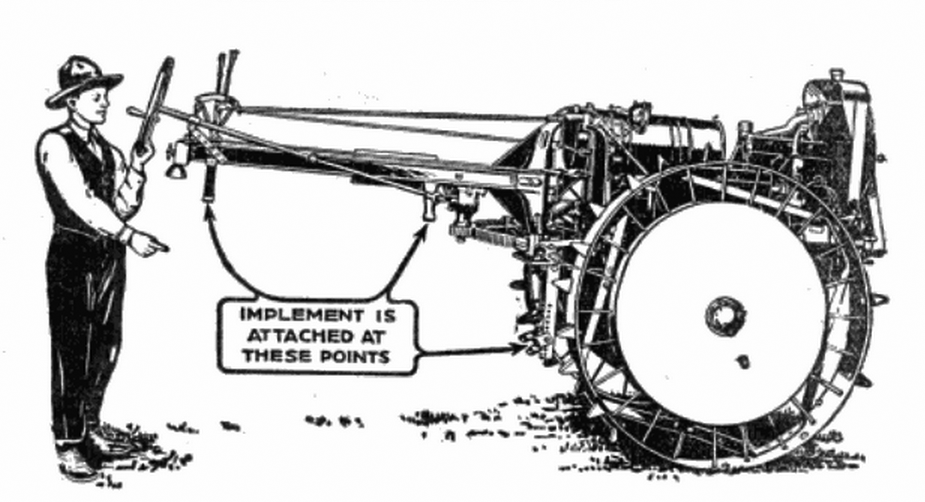 An illustration from an instructional overview on the Moline Universal Tractor, contributed to Adams's textbook by the builders of the tractor, the Moline Plow Company, 1920.